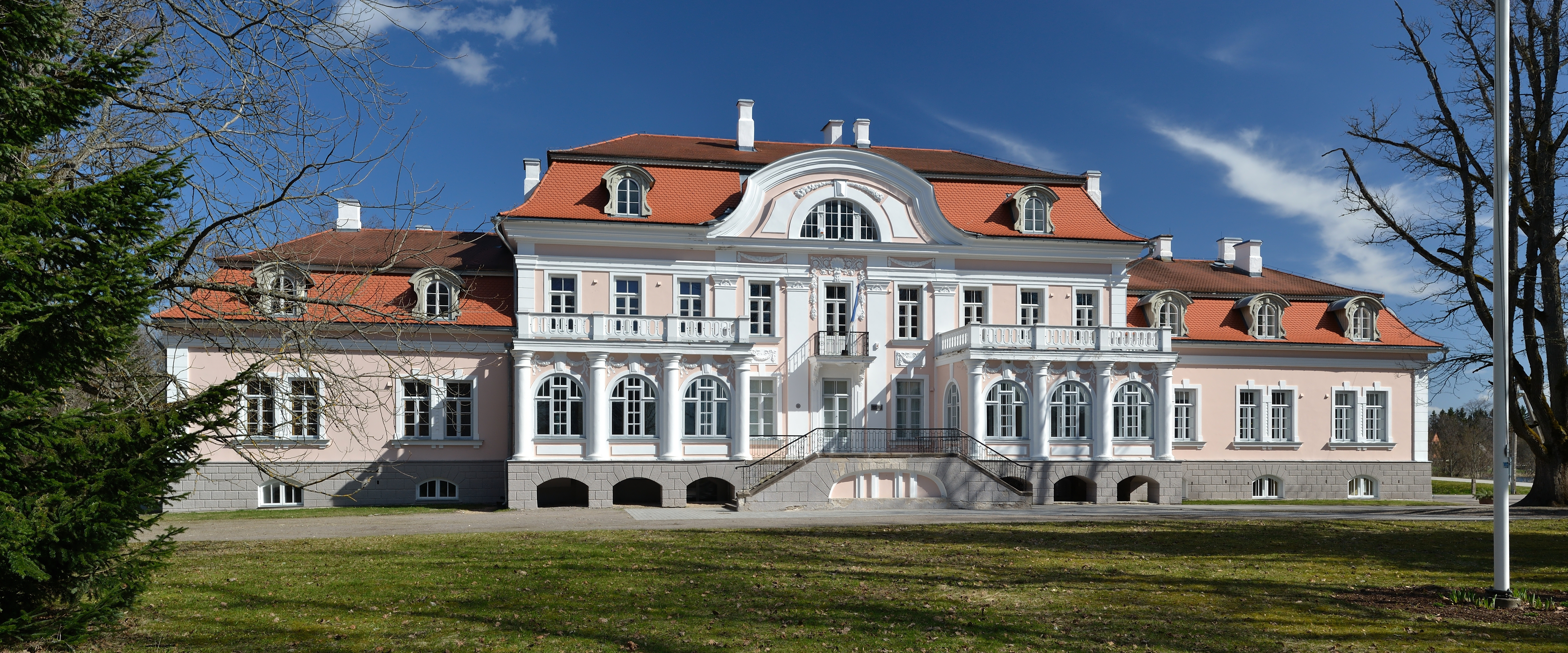 Laupa manor main building